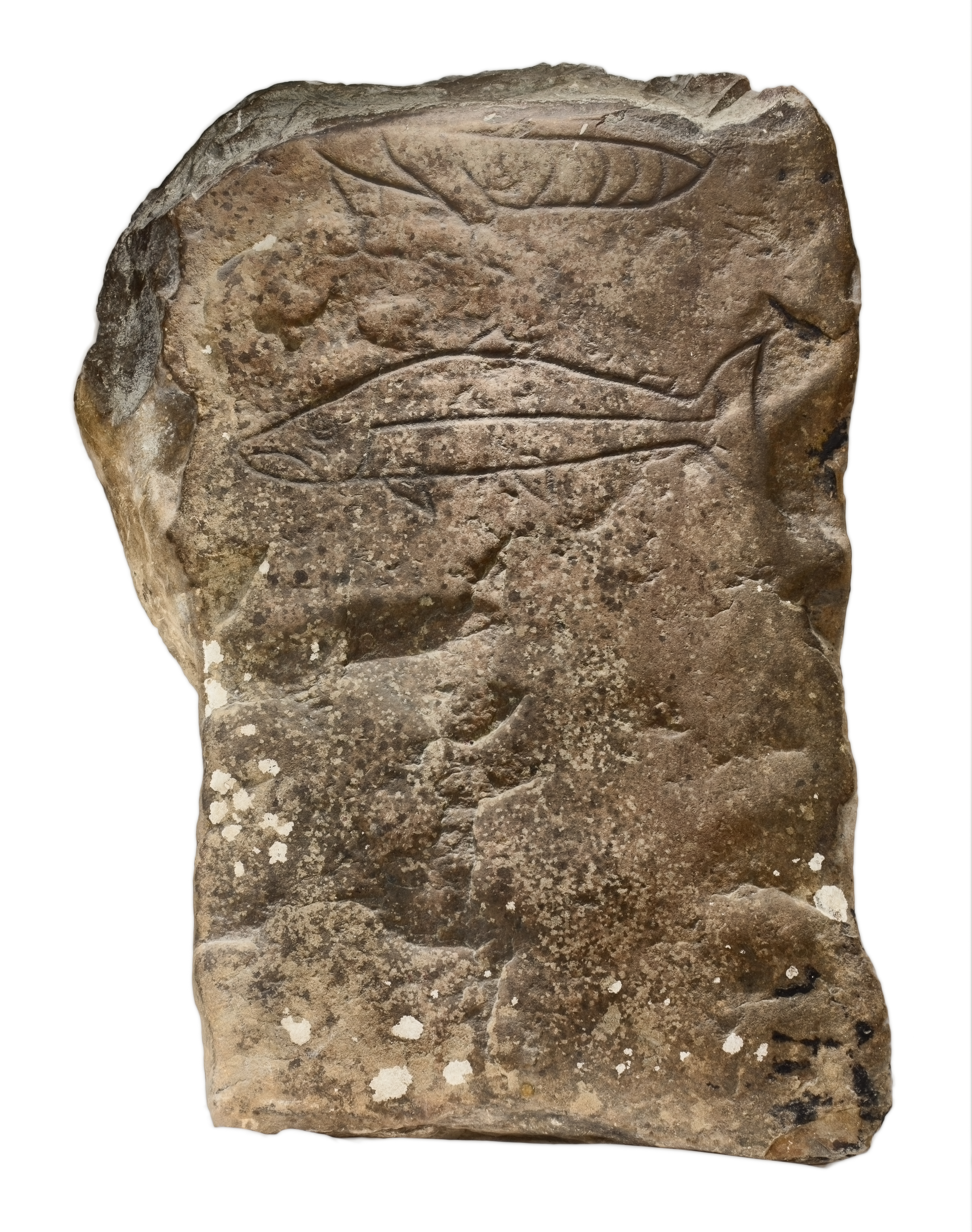 The Gairloch Stone is a Pictish stone that was discovered at Achtercaine, Wester Ross around 1880. A fish (likely a salmon) and the lower part of a bird (possibly an eagle or duck) are still visible.